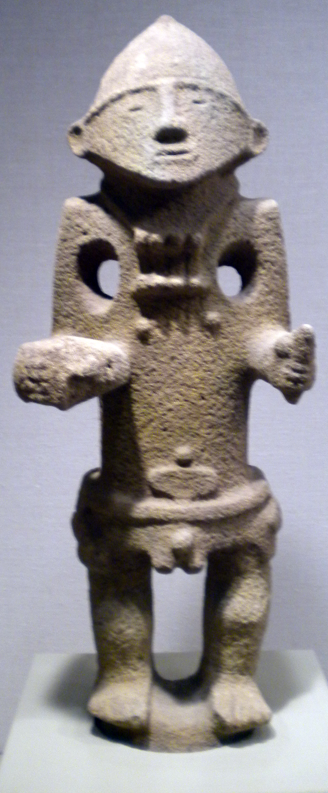 Warrior with Trophy Head (8th-11th century)- Costa Rica. For more information see the full catalog entry.